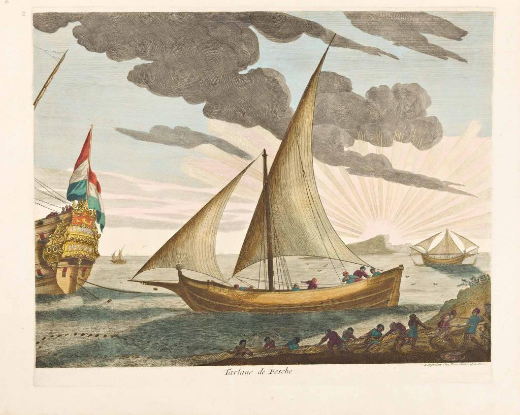 TARTANE. Book illustrated from «Le Neptune François Ou Atlas Nouveau Des Cartes Marines: Levées Et Gravées Par Ordre Exprés Du Roy. Pour L'Usage De Ses Armées De Mer».